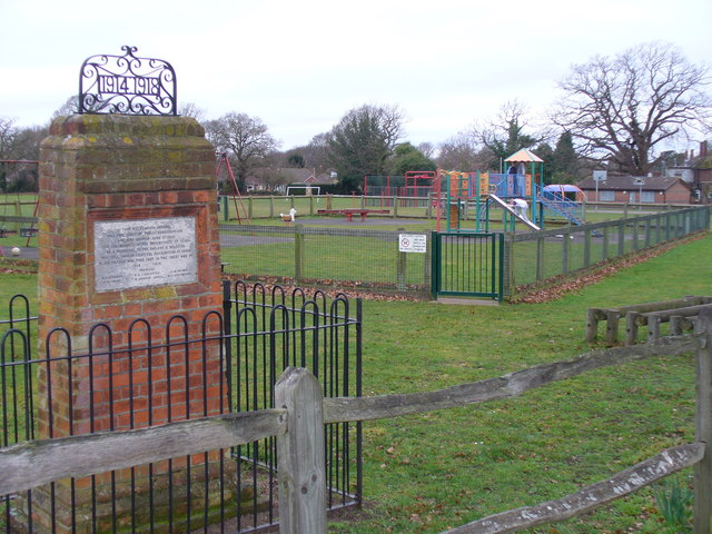 Recreation Ground, Send Memorial on Send Road commemorating the end of WW1 - beside grounds which were created then. Beyond the memorial is a children's playground.